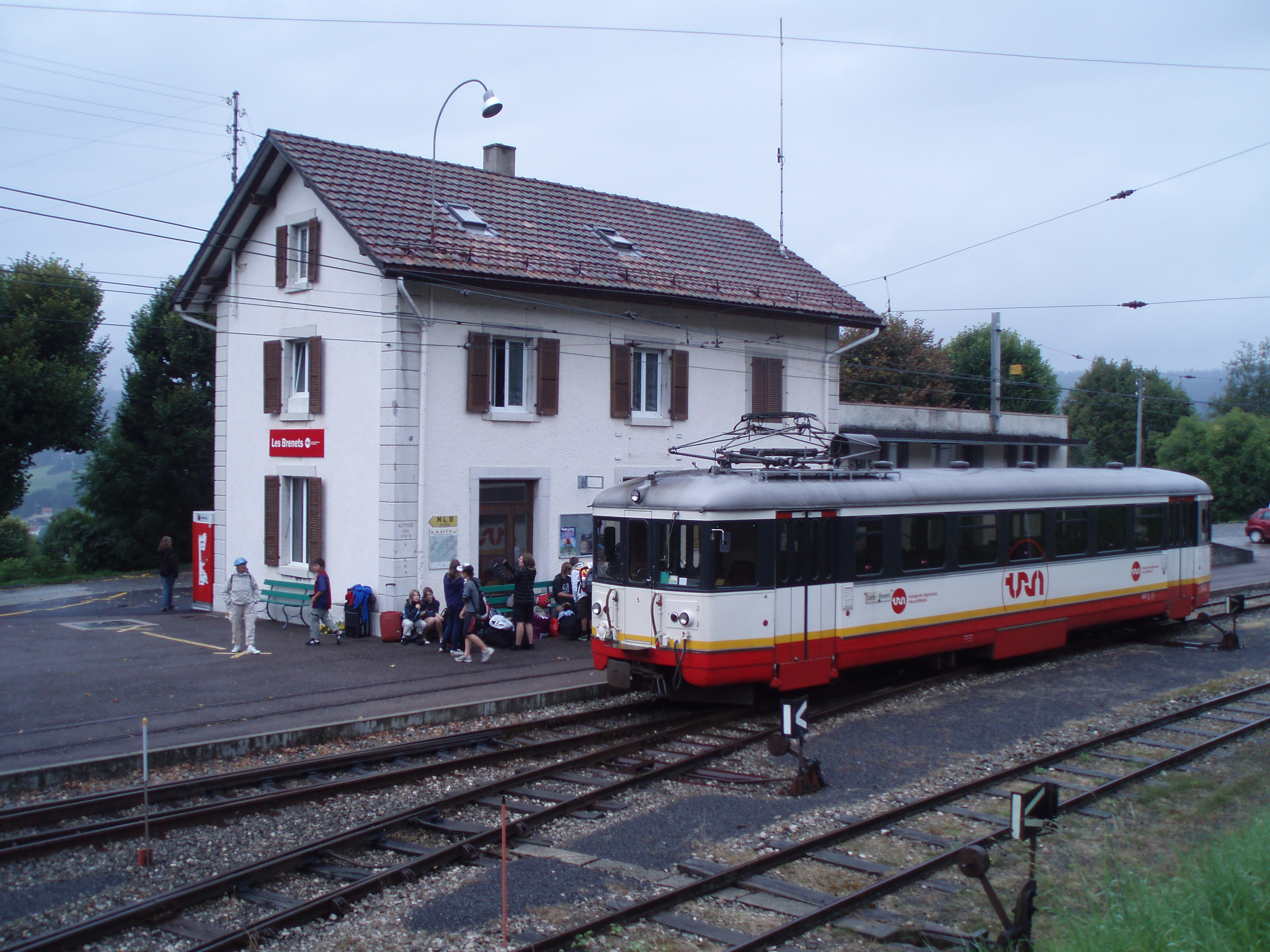 Railwaystation Les Brenets, Switzerland